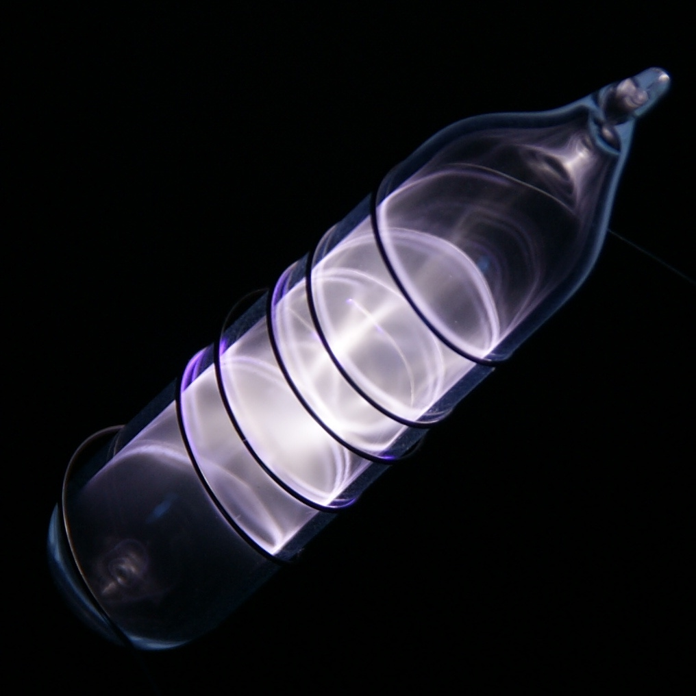 Vial of glowing ultrapure krypton. Original size in cm: 1 x 5.